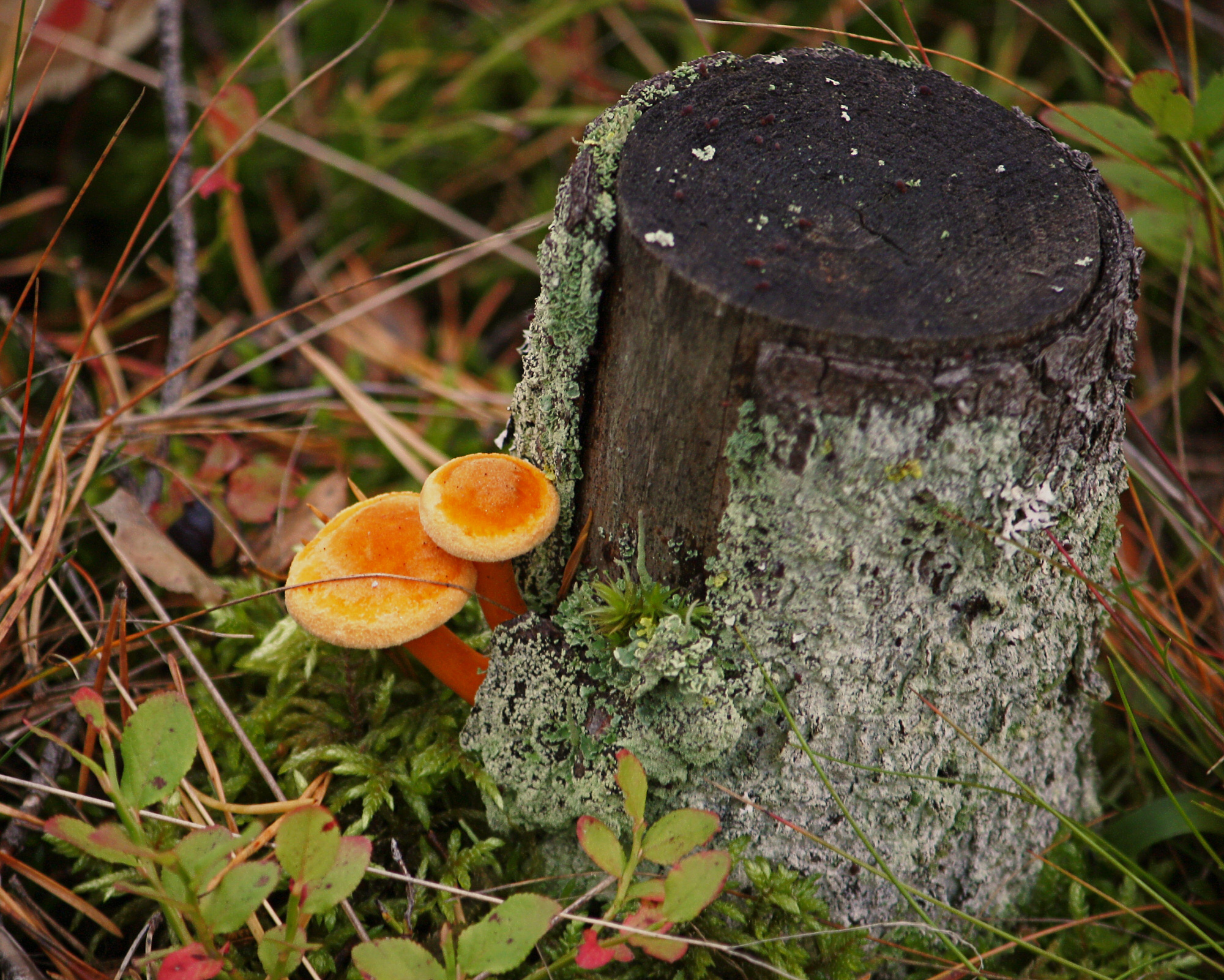 False Chanterelle (Hygrophoropsis aurantiaca) in Kerava, Finland